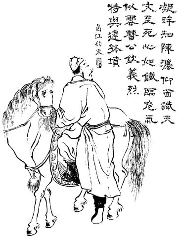 Qing Dynasty Romance of the Three Kingdoms illustration of Ju Shou